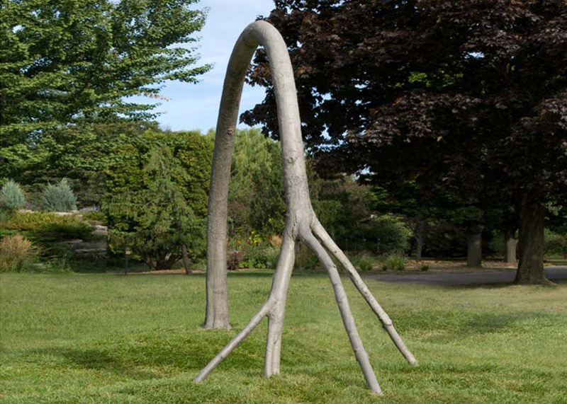 L'Arc - Salvador Allende Memorial art piece in Parc Jean-Drapeau in Montreal, Quebec, Canada. Created by artist Michel de Broin and erected on September 11, 2009